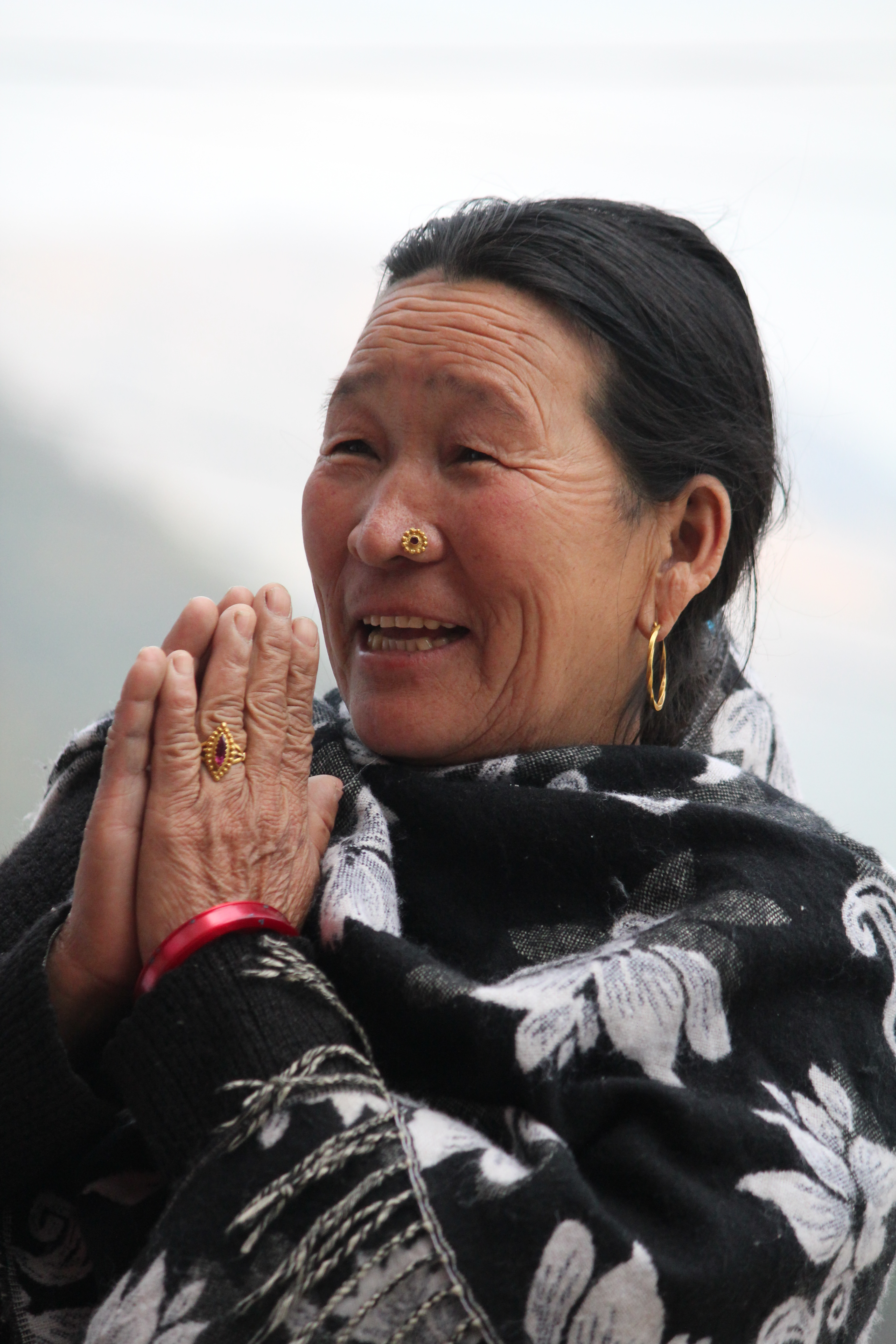 Namaste a greetngs gesture by a local lady while meeting whom she knew at Okhaldunga Nepal